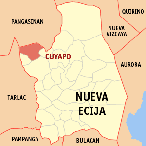 Map of Nueva Ecija showing the location of Cuyapo